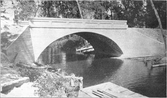 North Watervliet Rd-Pawpaw Lake Outlet Bridge